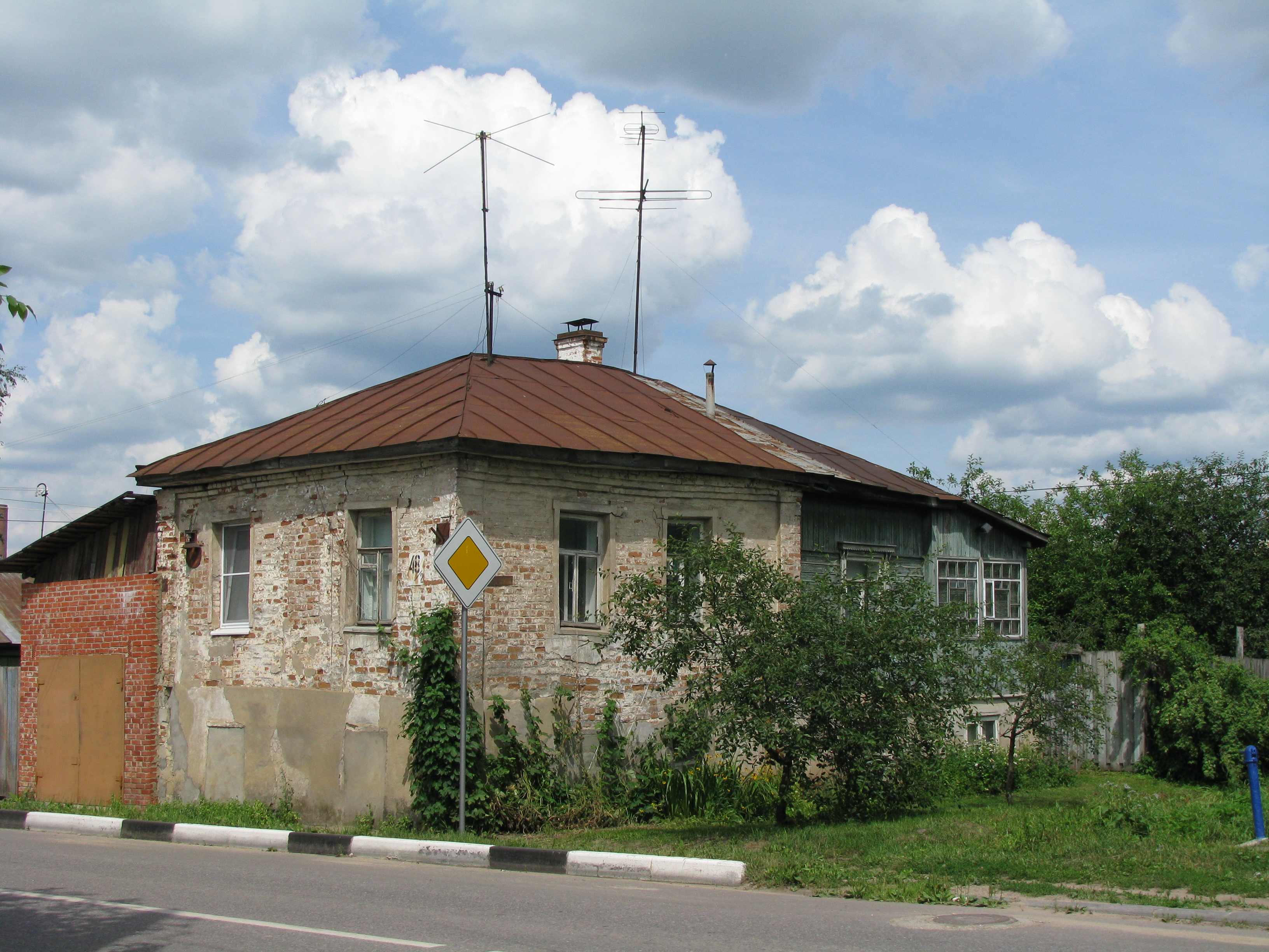 Serpukhov, Proletarskaya Street, 48/2. Сhamber (XVIII century, second half). Federal landmark.